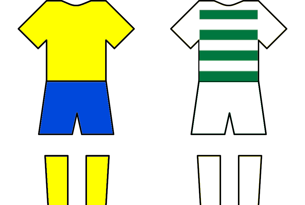 Kits used in the tricity derby